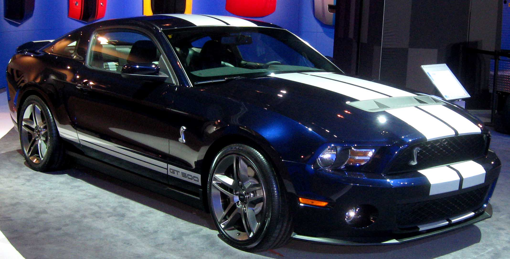 2010 Ford Mustang GT500 photographed at the 2009 Washington DC Auto Show.